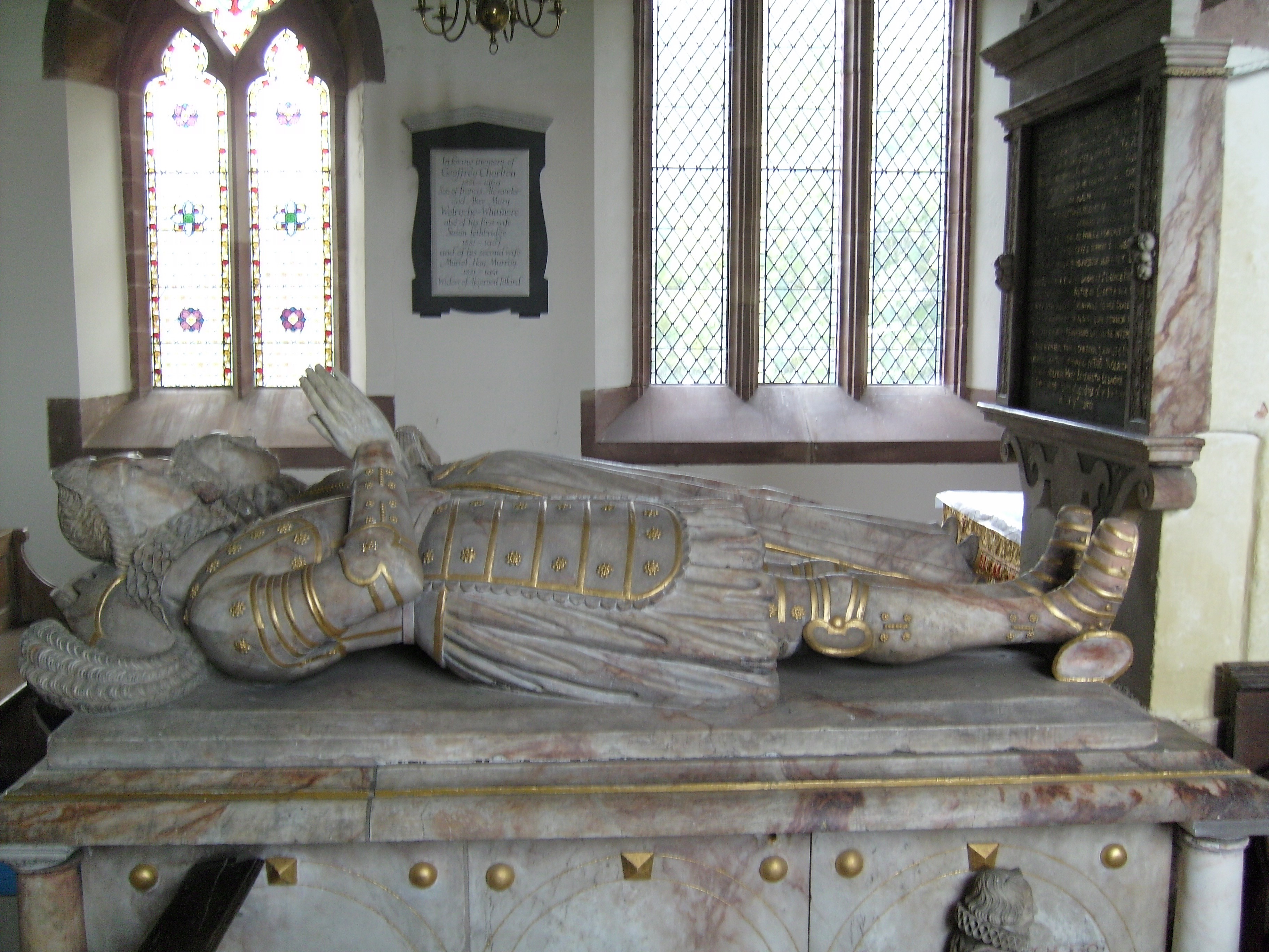 Tomb of Francis and Margaret Wolryche of Dudmaston Hall. St. Andrew's church, Quatt, Shropshire.